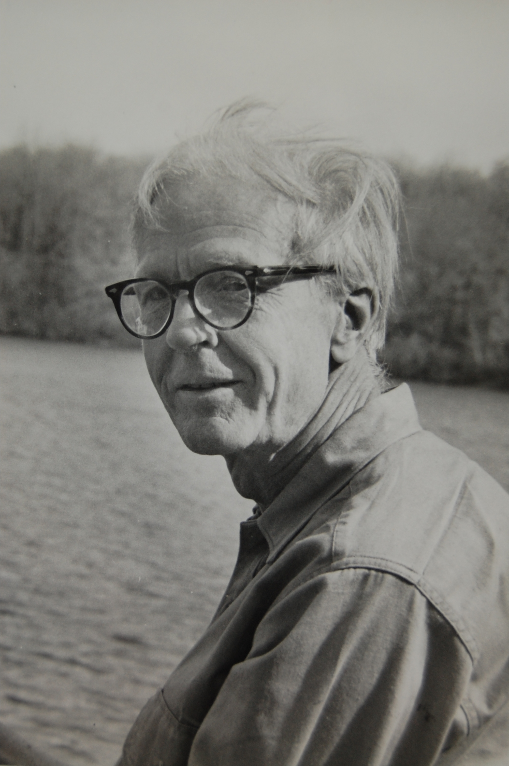 Hassler Whitney by a pond in April 1973.